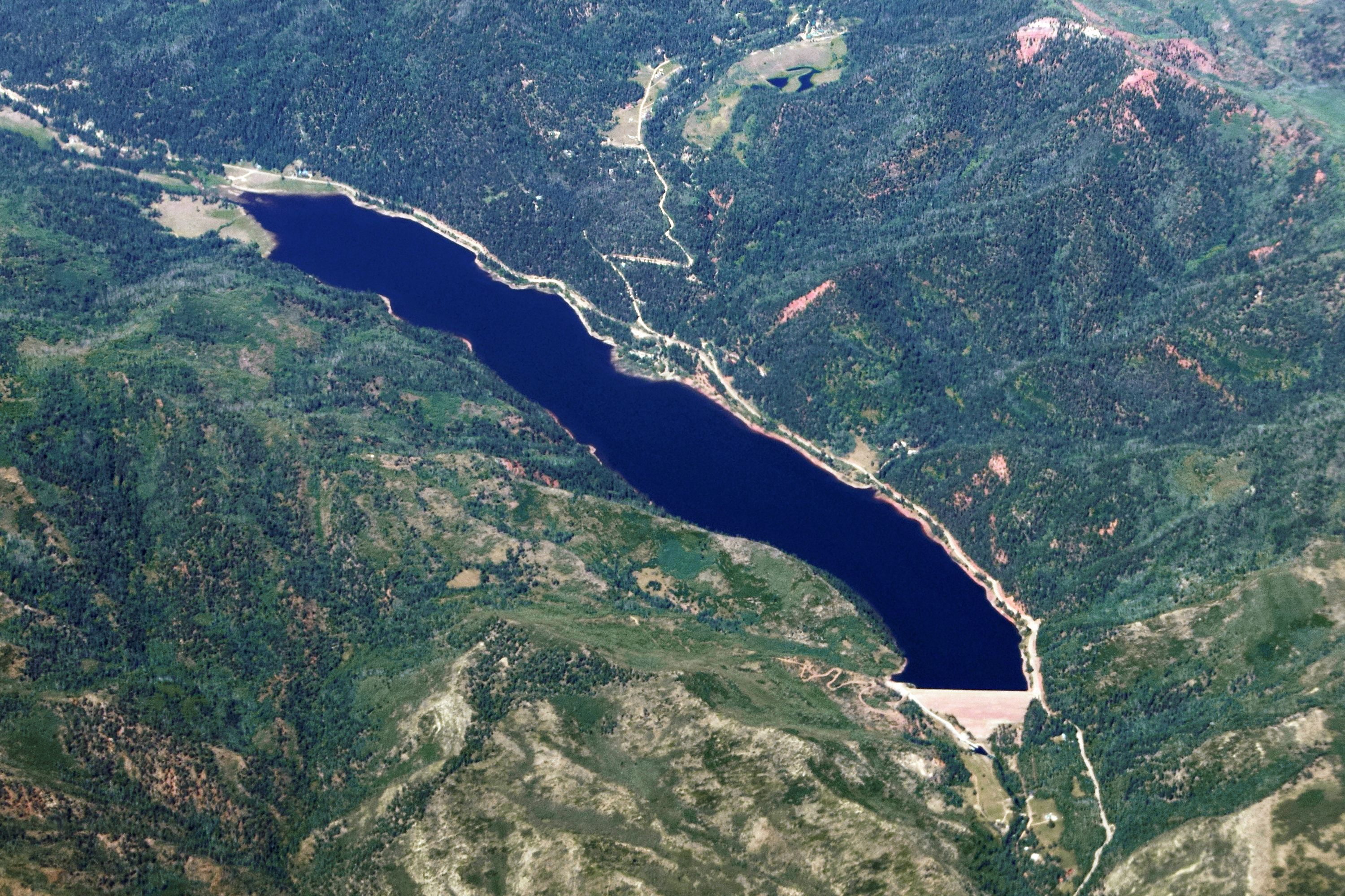 Lemon Reservoir and the Dam, northeast of Durango in La Plata County.